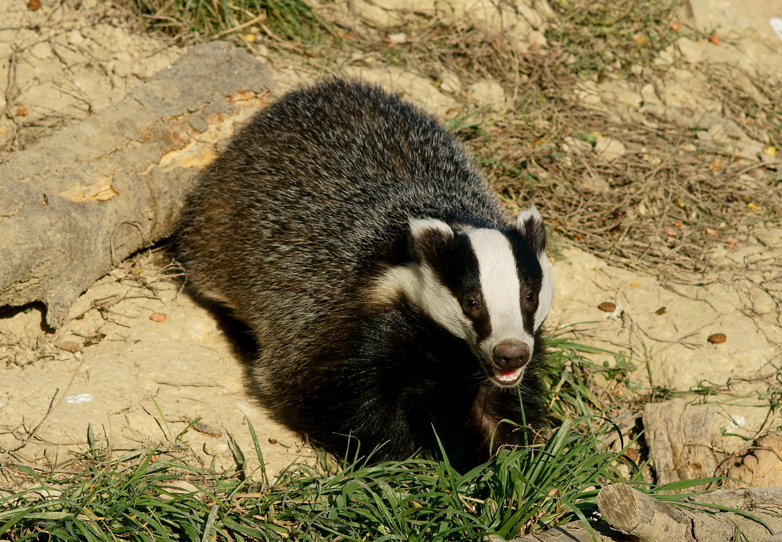 Badger on dry ground facing the camera. Seen at the British Wildlife Centre, Newchapel, Surrey. 'Honey', the badger, at the afternoon Keeper's talk.